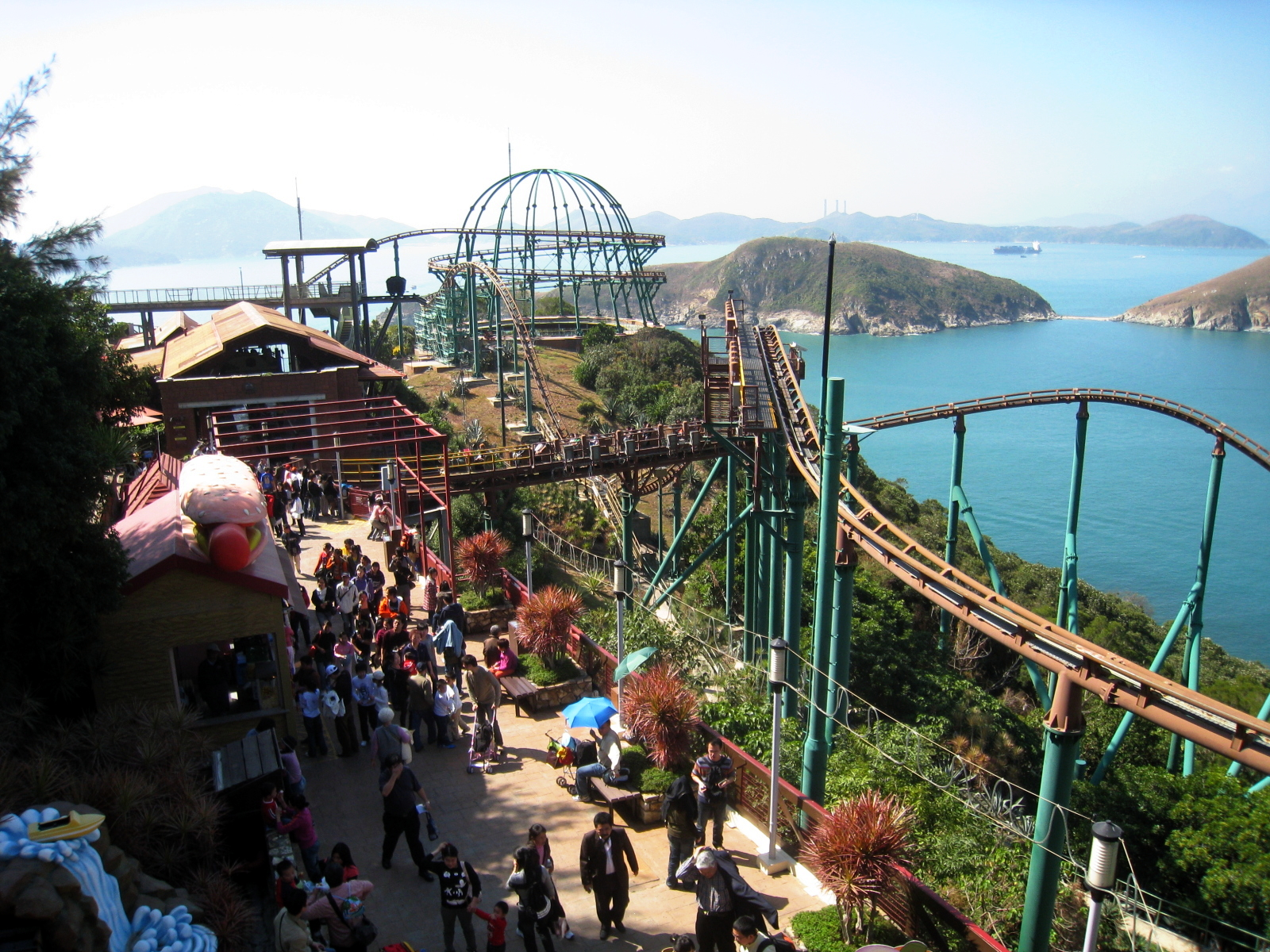 HK Ocean Park Mine Train 香港海洋公園 越礦飛車